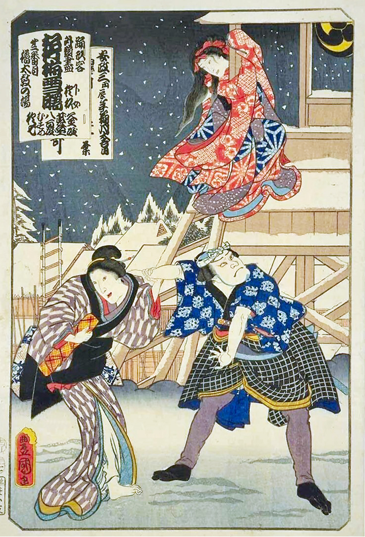 Woodblock print by Utagawa Kunisada I, here signing with 'Toyokuni ga'; series 'Titles of dance descriptions'; the actors Ichikawa Kodanji IV, Asao Yoroku II and Onoe Kikugorō IV as yaoya musume Oshichi (八百屋むすめ於七), unread (釜屋武兵エ), gejo Osugi (下女於杉) in the play 'Shochikubai yuki no akebono'; publisher: Minatoya Kohei